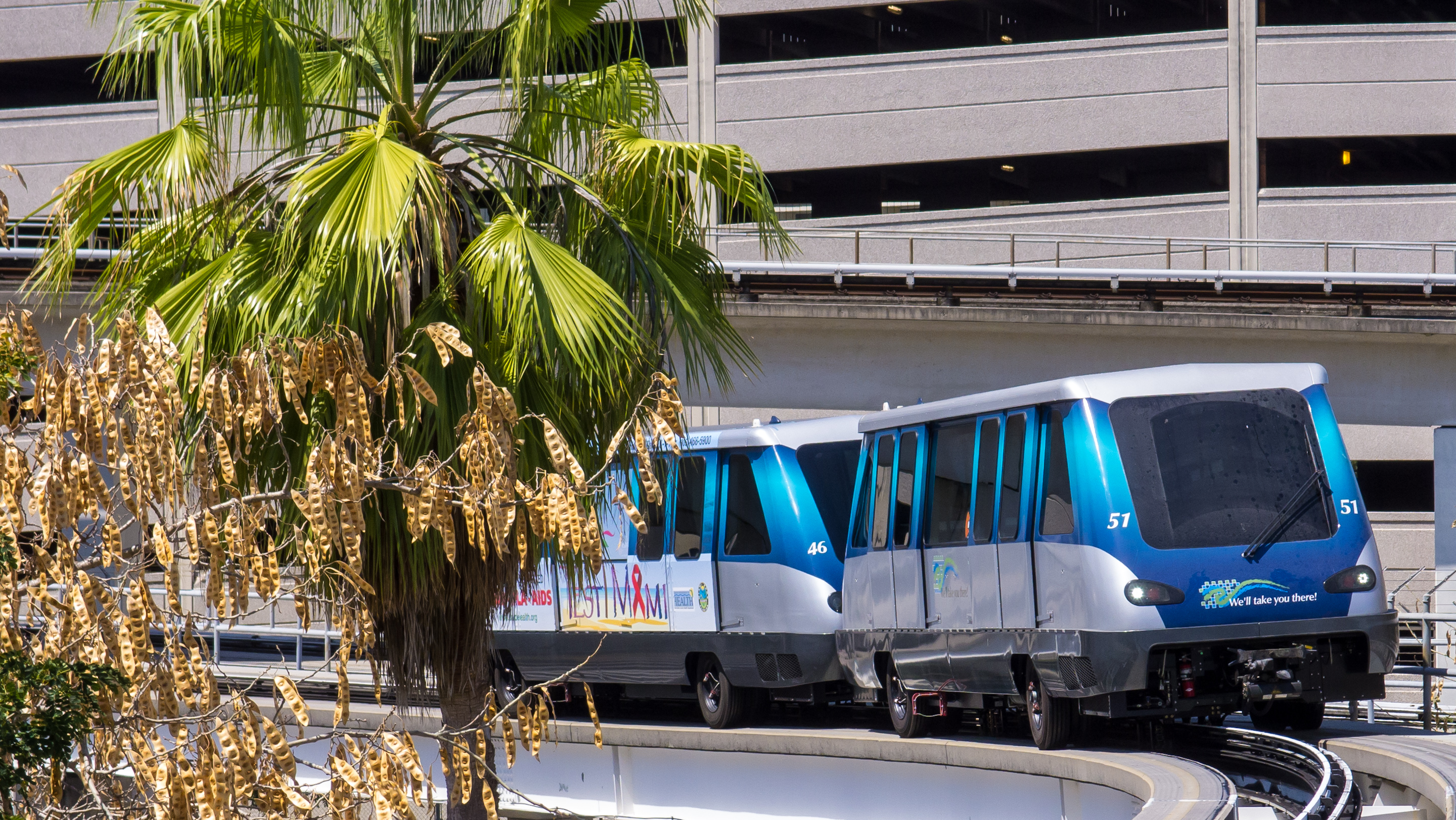 a double-unit Metromover train in Omni, Miami